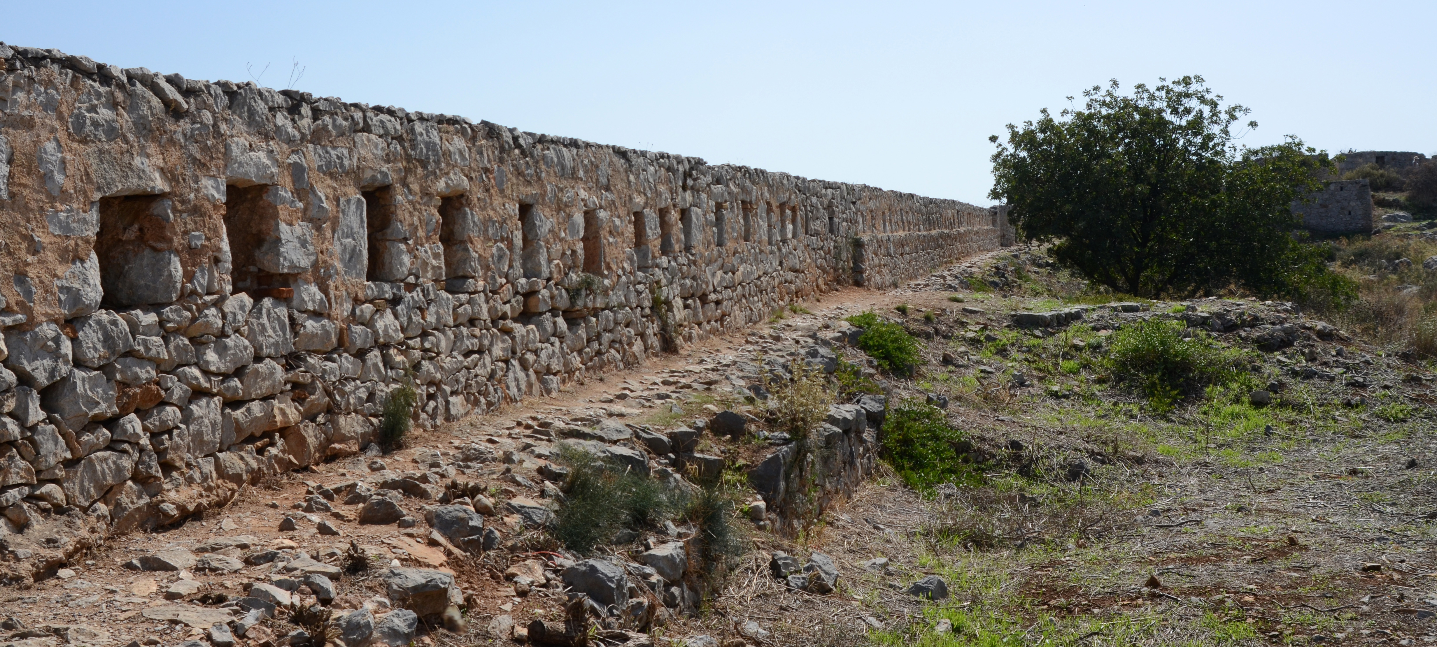 Internal fortified wall in the Palamidi fortress.